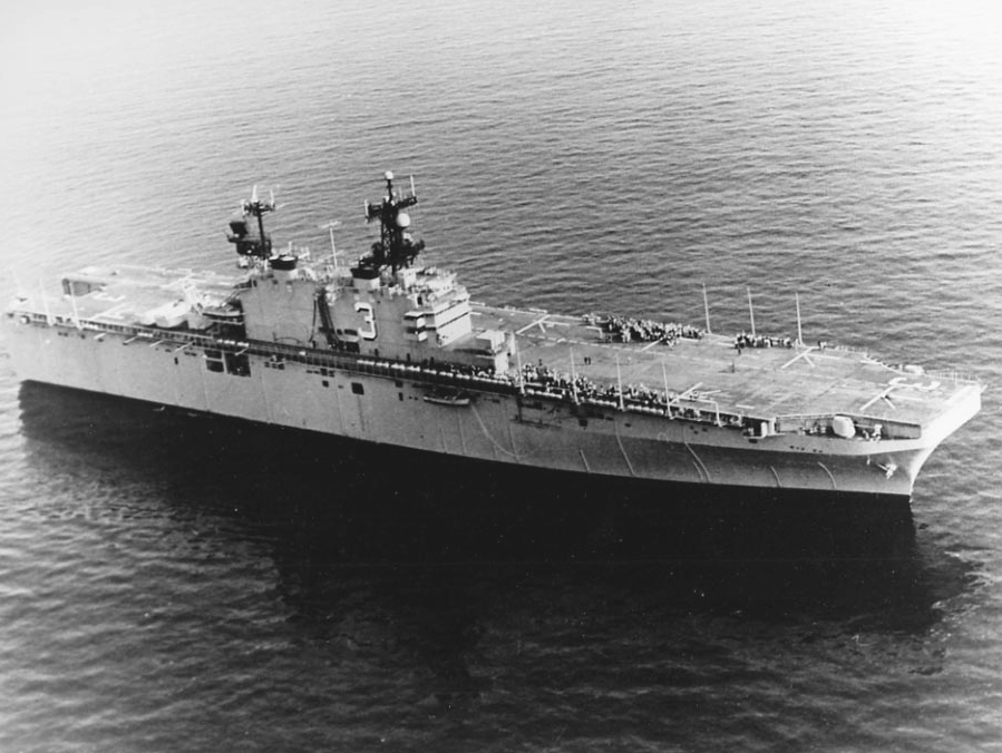 The U.S. Navy amphibious assault ship USS Belleau Wood (LHA-3) underway at sea, in 1978. The ship was commissioned on 23 September 1978.